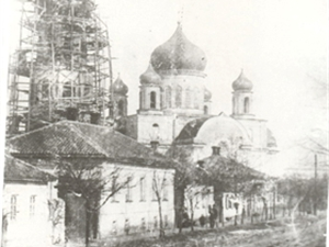 Construction of the bell tower of Kazan cathedral in Luhansk (beg. XX century)